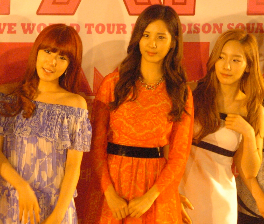 TaeTiSeo in I AM. Showcase.